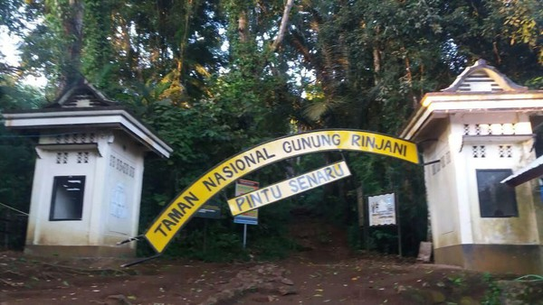 Damage at the gate to Mount Rinjani National Park following the 2018 Lombok Earthquake